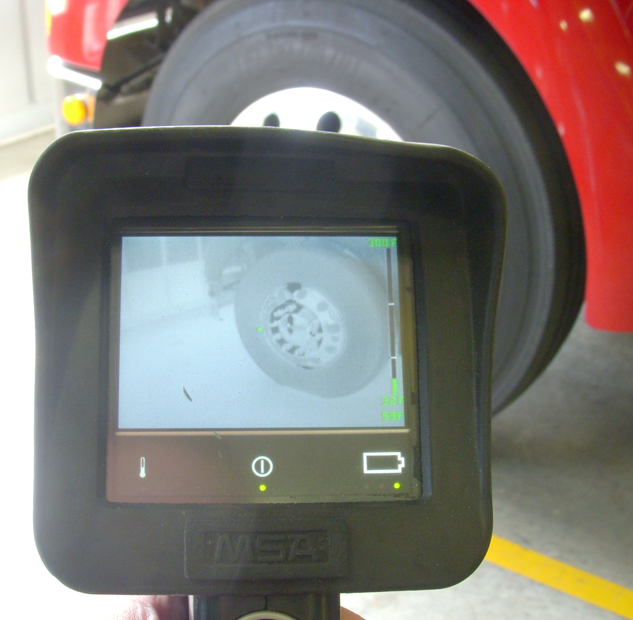 View of a fire apparatus tire through a thermal imaging camera.